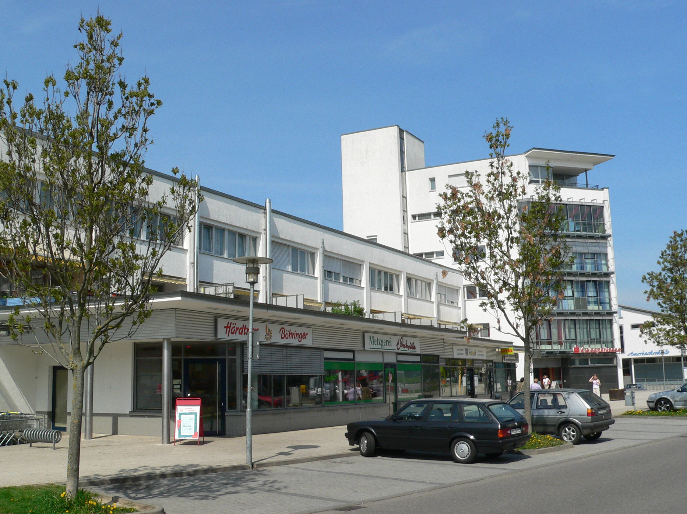 Centre of the new part of Neckarsulm-Amorbach (the part of the town Neckarsulm) called "New Middle"